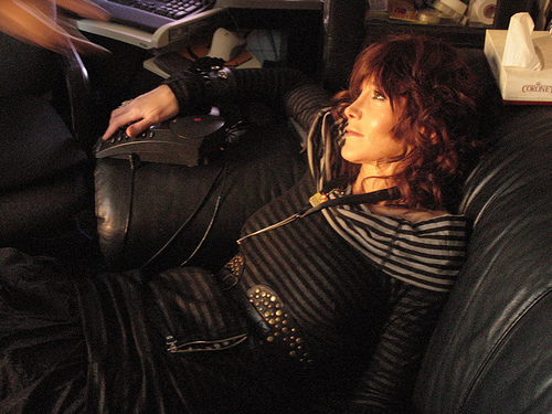 Laura Albert in her study, San Francisco, California, 2007